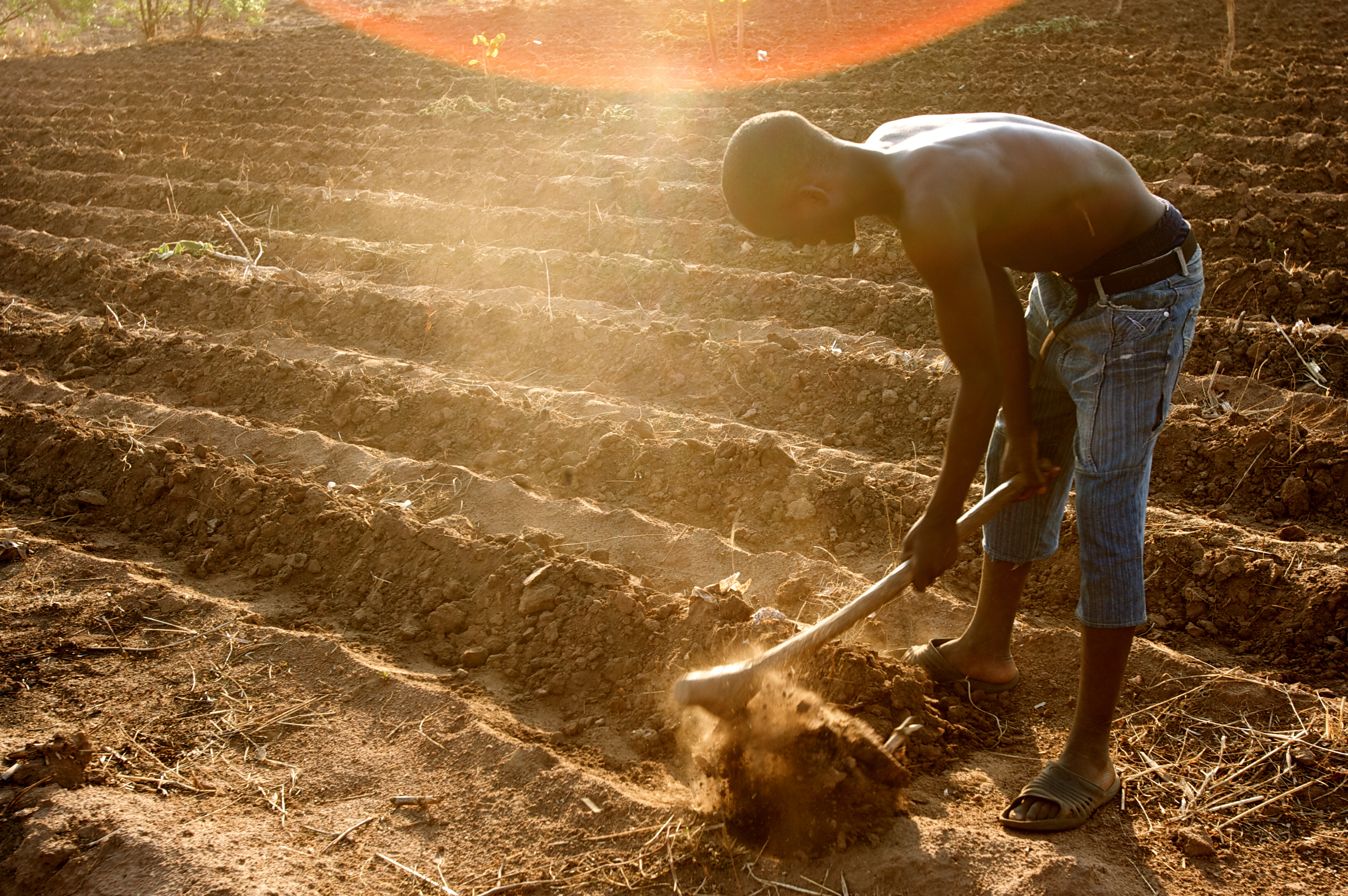 A farmer prepares his field for the planting season near Nathenje on the outskirts of Lilongwe, Malawi. Australia is using its expertise and experience to help improve food security in African countries.